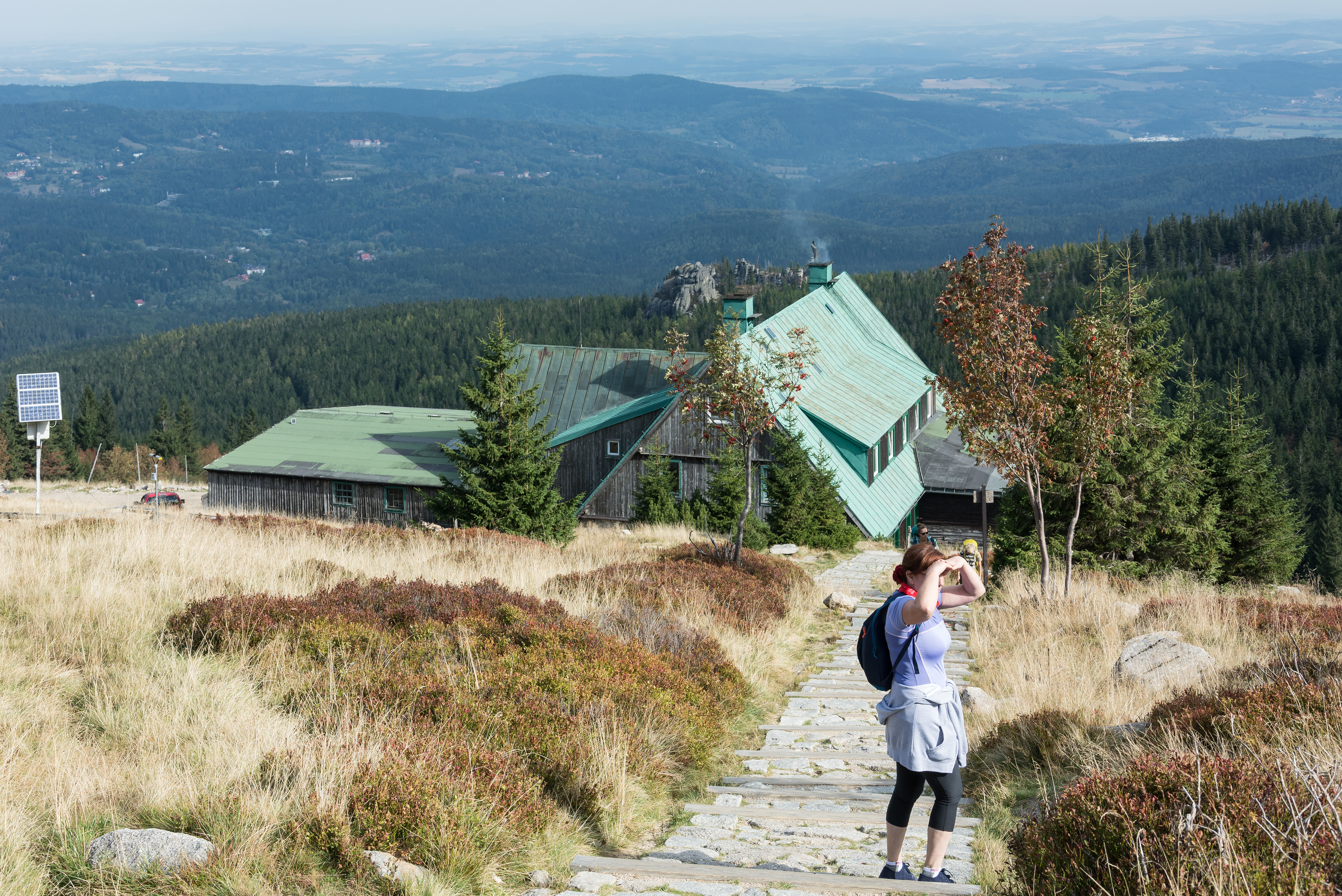 Pod Łabskim Szczytem mountain hut